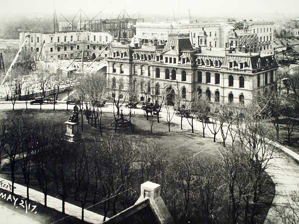 The second Legislative Building, with the third and present building under construction behind it (May 1917) by Lewis Foote